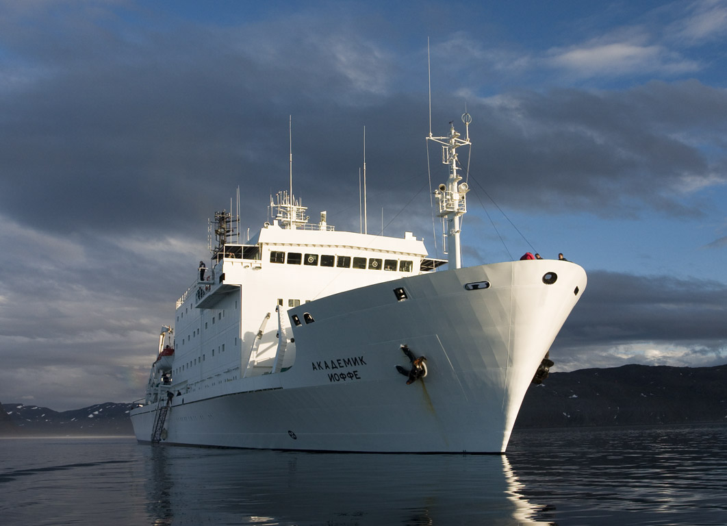 Photo of R/V Akademik Ioffe in the Frobisher Bay, Baffin island, Canada IMO Number: 8507731 MMSI Number: 273413400 Callsign: UAUN Length: 117 m Beam: 18 m